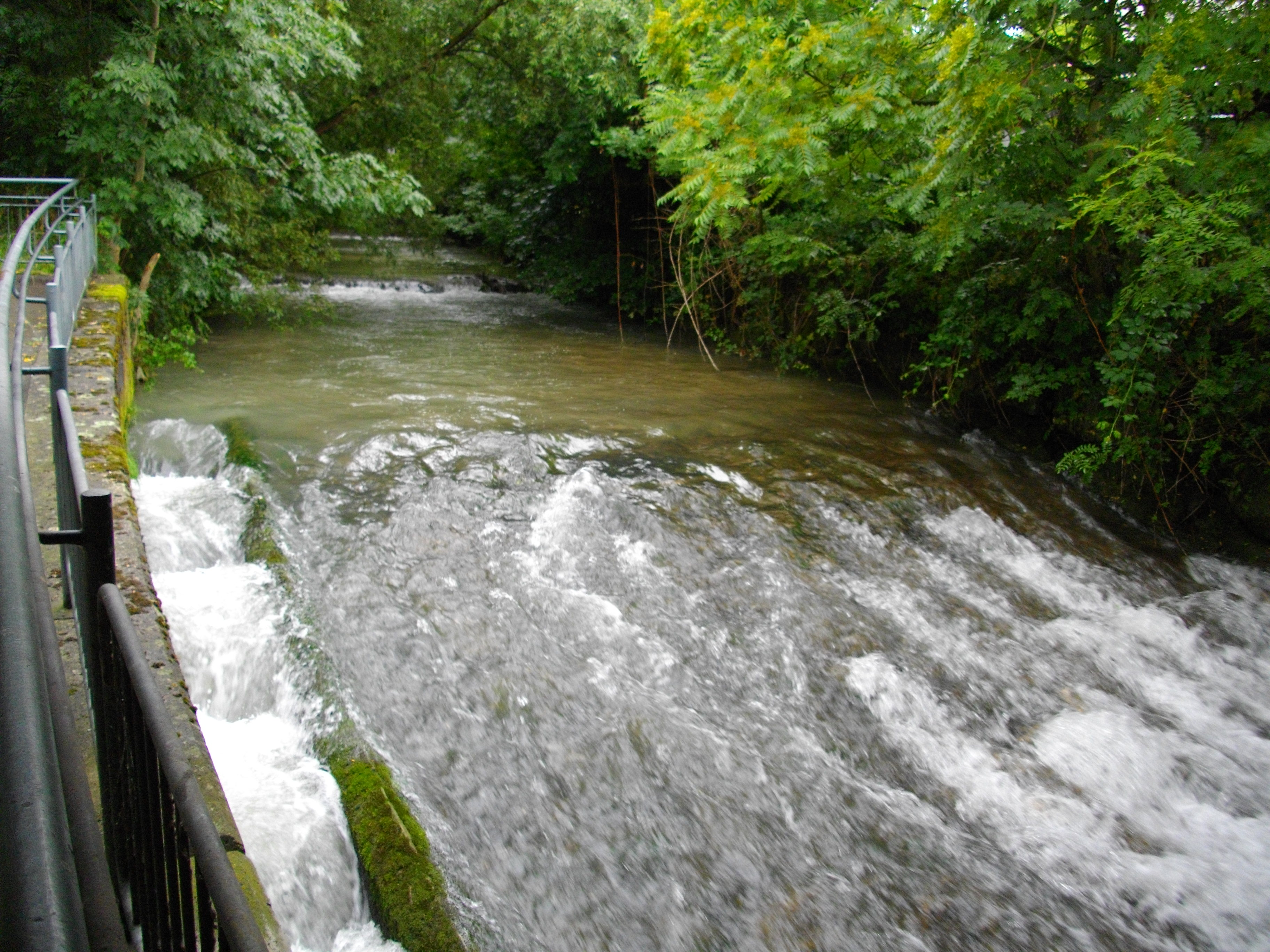 Echaz River in Reutlingen, Germany